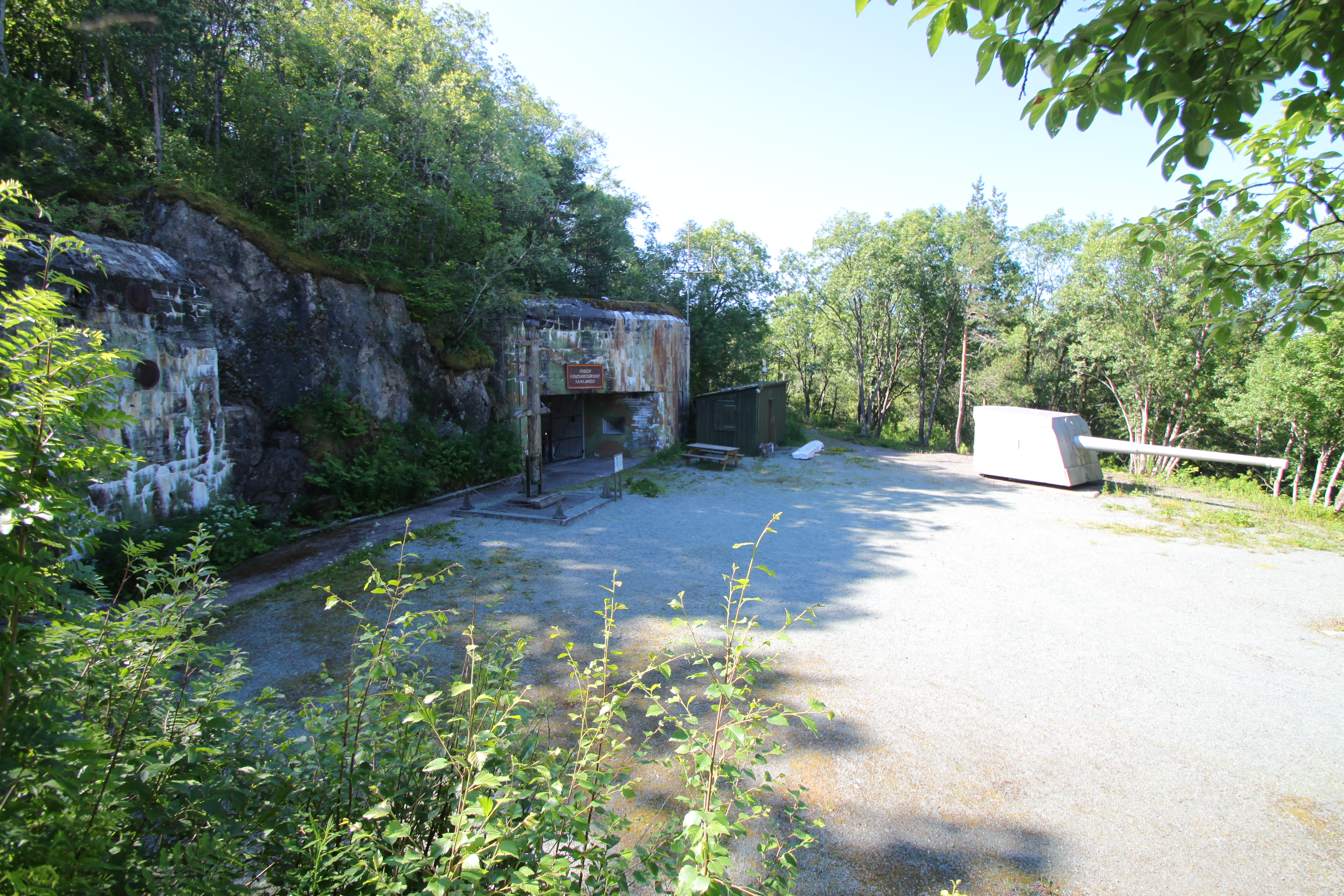 Austrått Fort - Haupteingang 28 cm SK C/34 gun at Austrått Fort in Ørland, Norway